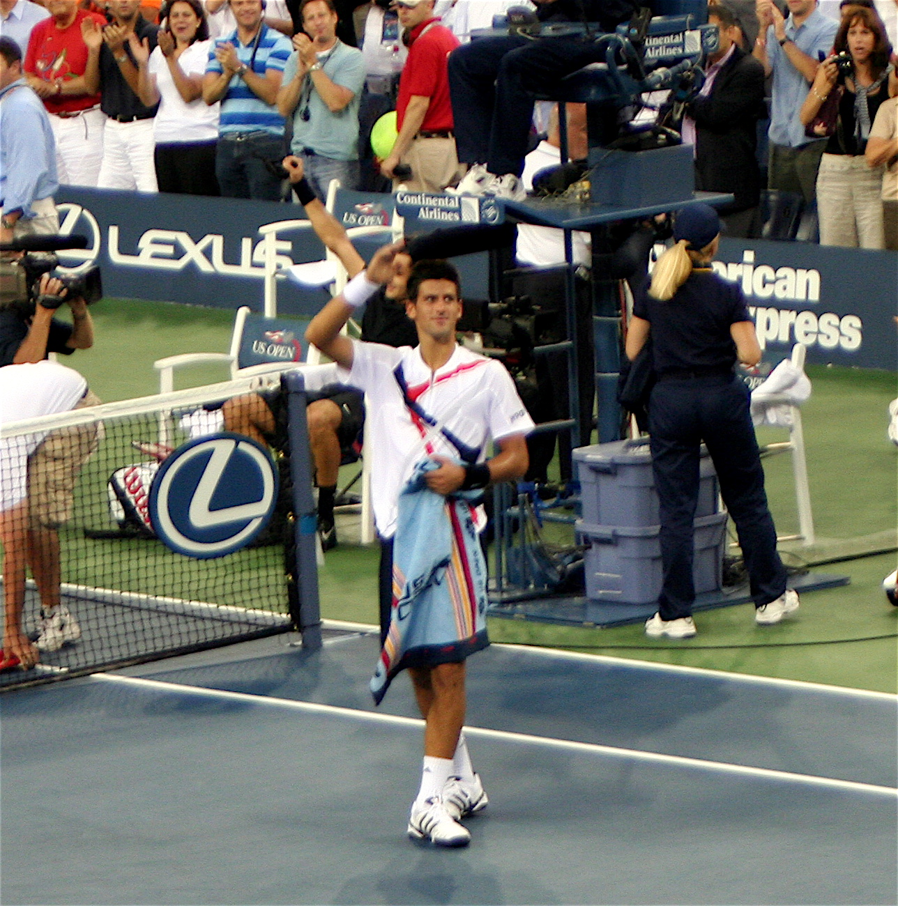 Djokovic aknowledges the crowd after losing the final.